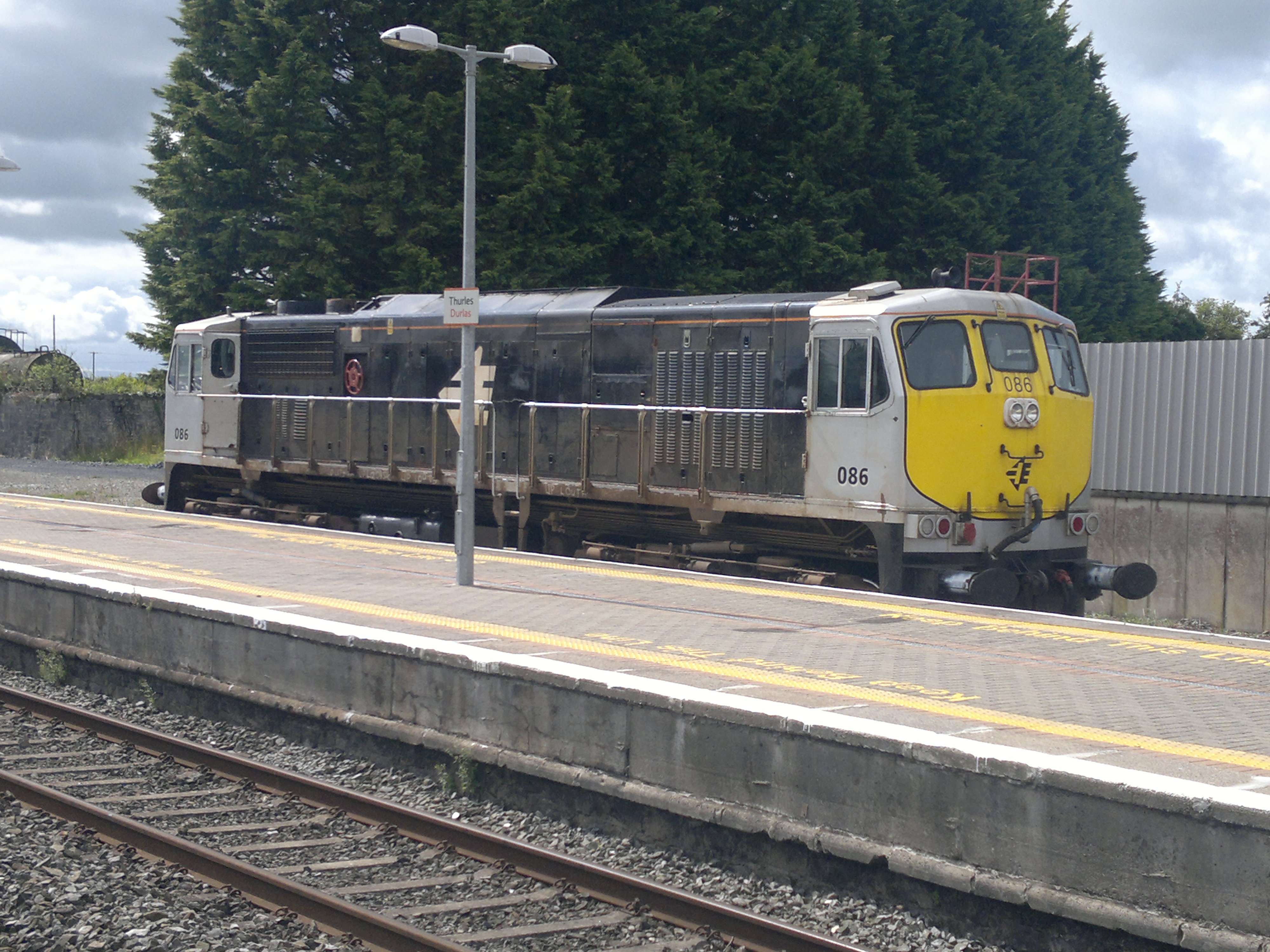 Iarnród Éireann GM 071 Class no 086 Thurles North Tipperary